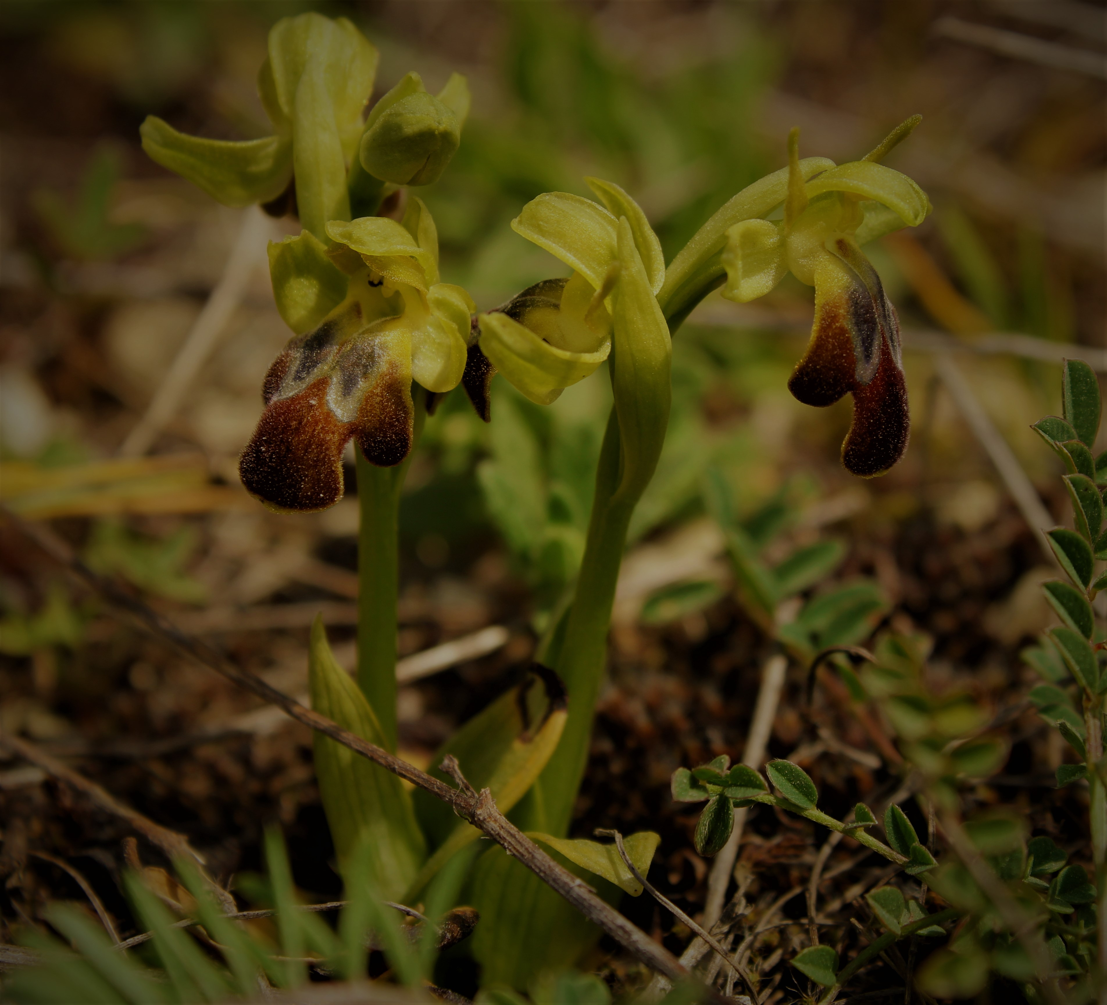 Ophrys fusca lips